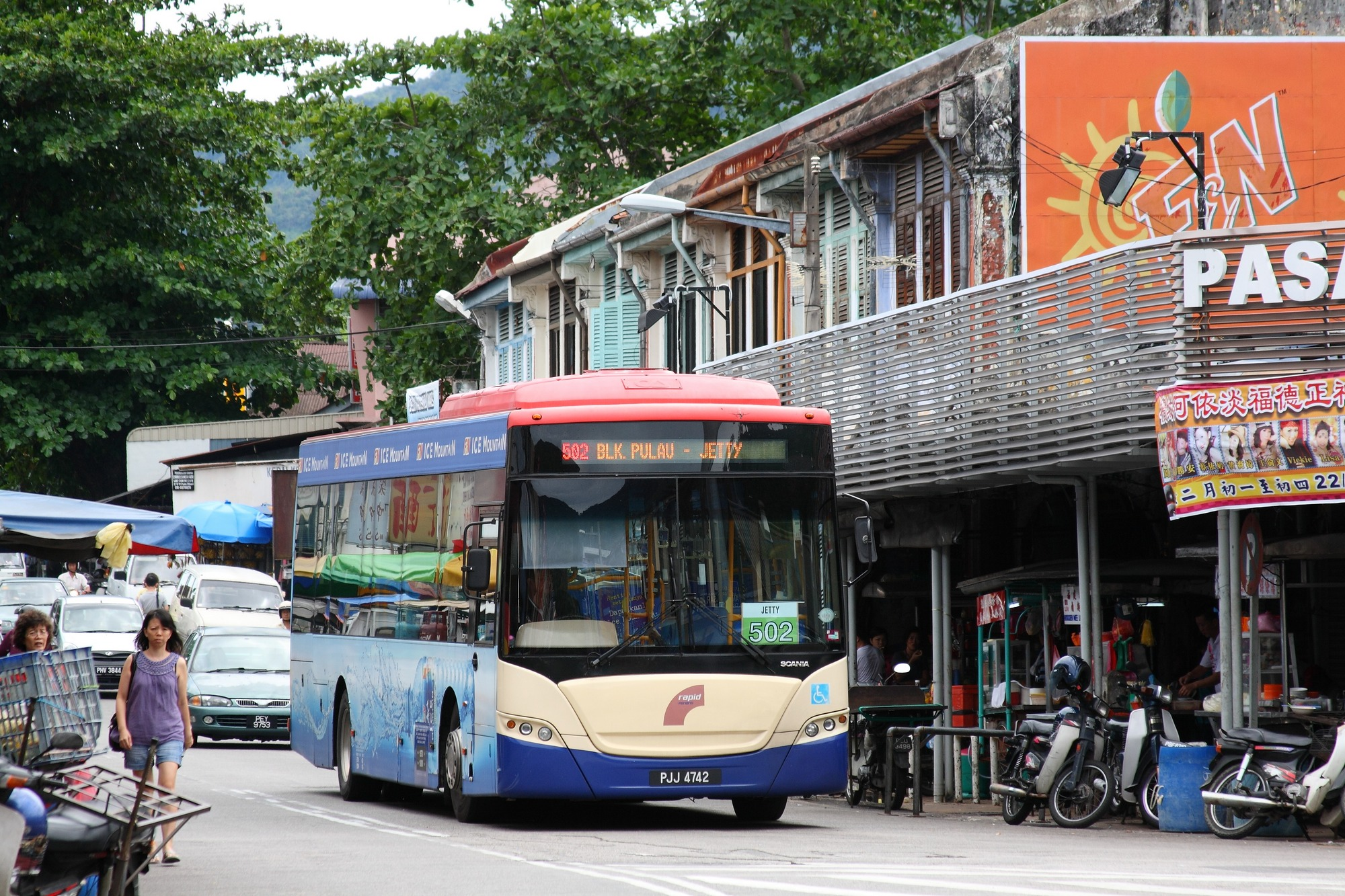 A Scania K270UB bus operated by RapidPenang in Penang, Malaysia.